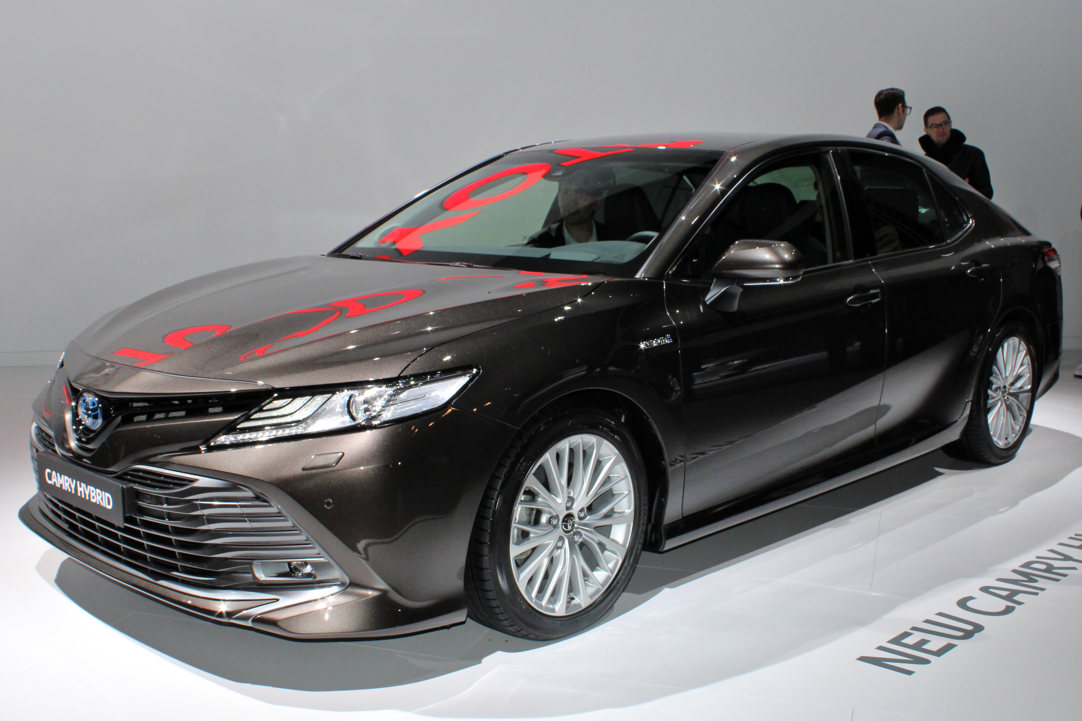 Toyota Camry Hybrid at Paris Motor Show 2018